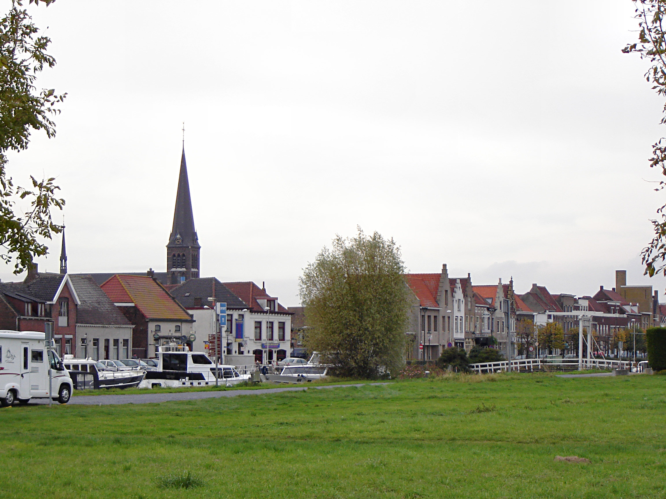 View on Sas van Gent (western part) from across an old section of the Gent-Terneuzen Canal. Sas van Gent, Terneuzen, Zeeland, the Netherlands